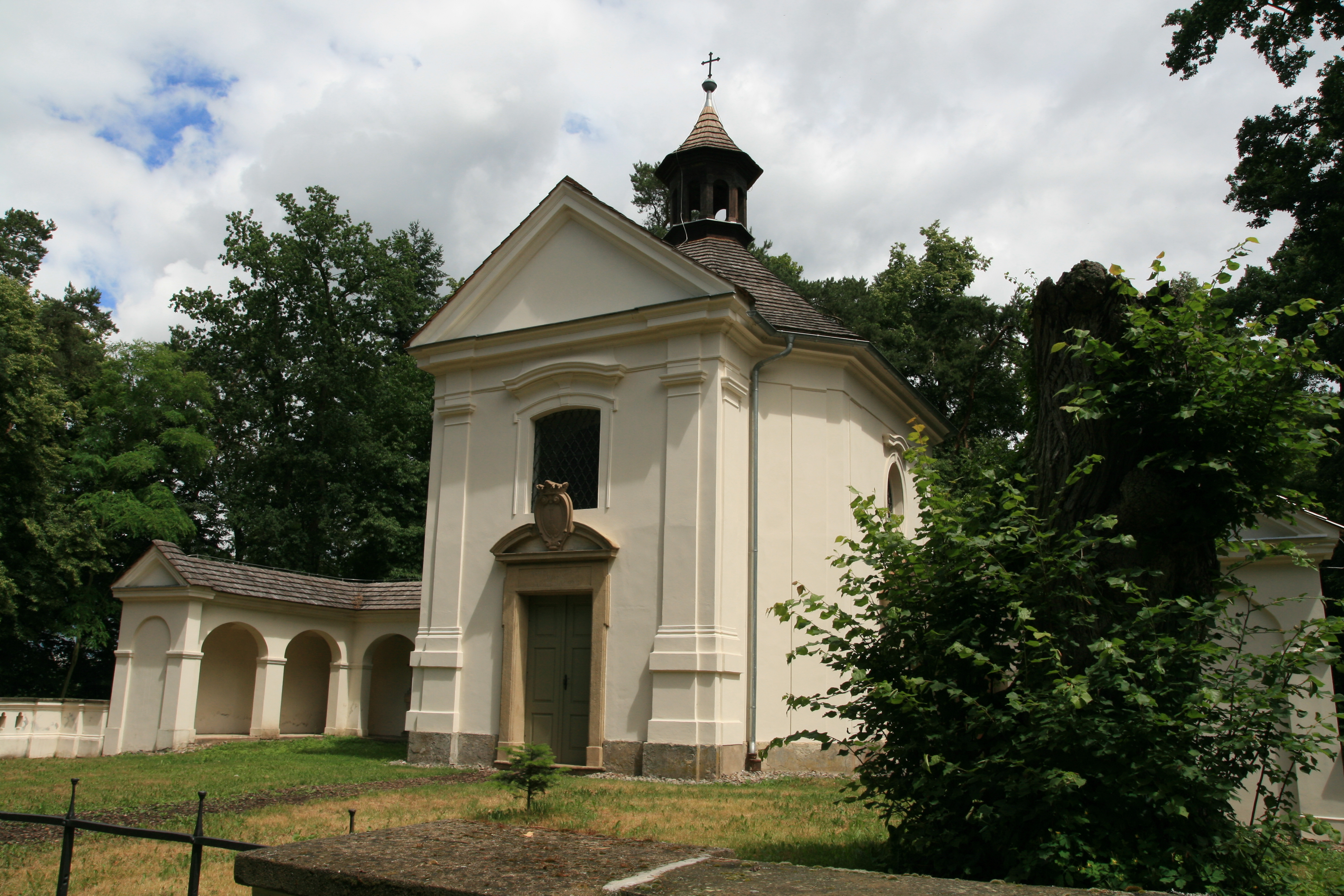 Chapel of the Holy Family on top of Paseka hill in Černá Hora, Blansko District, Czech Republic.